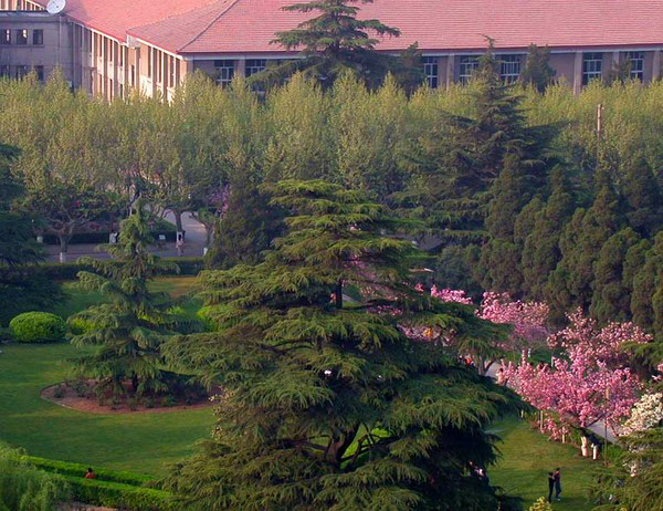 a corner of the XJTU campus